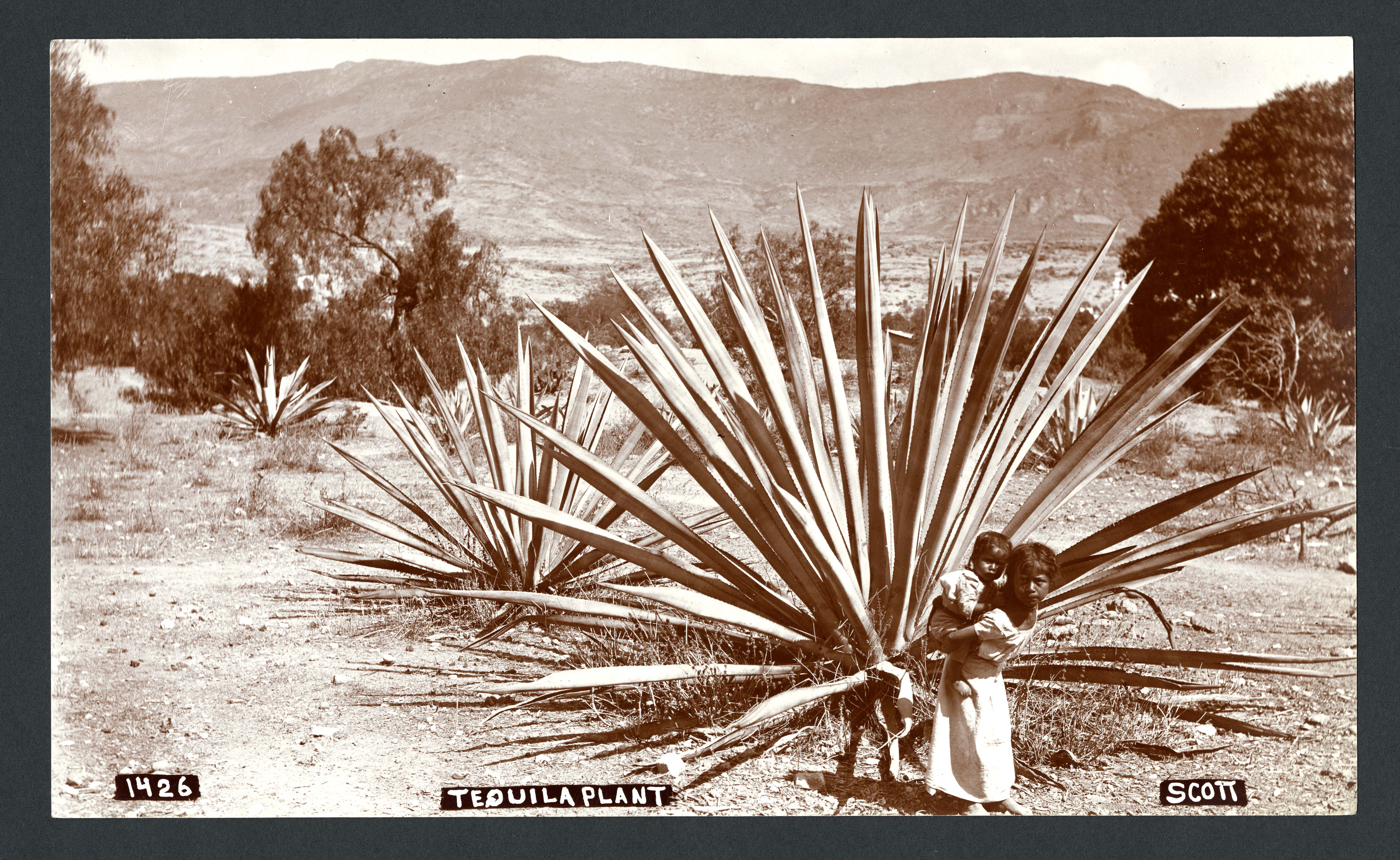 Creator: Unknown Local number: SIA2014-03231 Summary: Photograph documents field work of E. A. Goldman and E. W. Nelson in Mexico. Dates: 1890-1910 Collection: SIA RU 7364, Edward William Nelson and Edward Alphonso Goldman Collection, circa 1873-1946 and undated. Box 31, Folder 17. Repository: Smithsonian Institution Archives View more collections from the Smithsonian Institution.